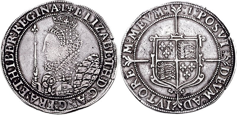 England Elizabeth I of England. 1558-1603. AR Crown (29.88 g, 7h). Sixth issue. Tower mint; im: 1. Struck 1601-1602. :ELIZABETH: D’. G’. ANG’. FRA’. ET: HIBER’. REGINA:, crowned bust left in elaborate dress, holding scepter in right hand, globus cruciger in left; B&C bust 9A :POSVI: DEVM: ADIVTOREM: MEVM:, garnished royal shield over long cross fourchée. Cooper dies B/1; North 2012; SCBC 2582. VF, toned.